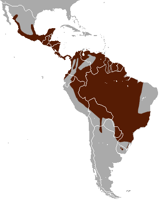 Margay (Leopardus wiedii) range